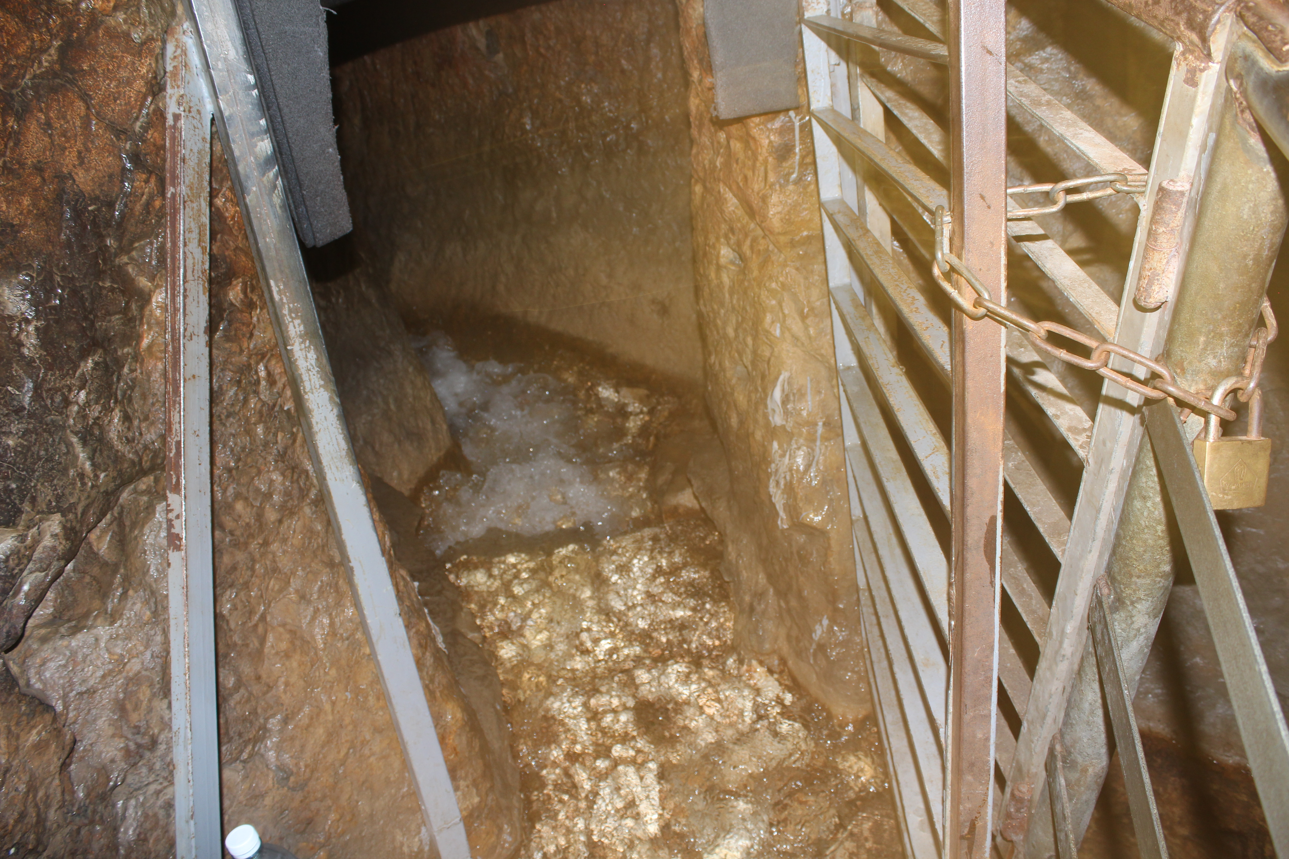 Gihon Spring, City of David, Jerusalem